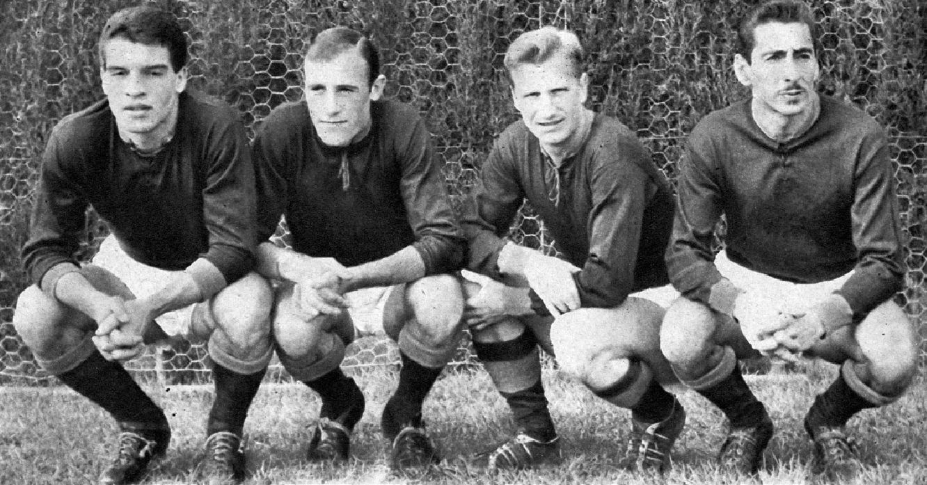 From left to right: footballers Alberto Orlando, Pedro Waldemar Manfredini, Arne Bengt Selmosson and Alcides Edgardo Ghiggia Pereyra with A.S. Roma in the late 1950s.